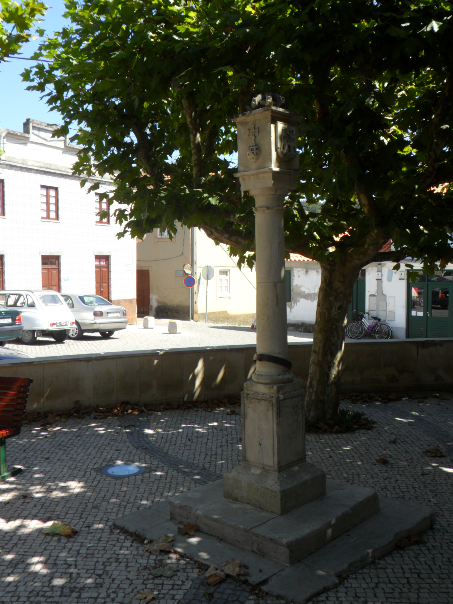 This file was uploaded for Wiki Loves Monuments in Portugal with the unique identifier 73766.